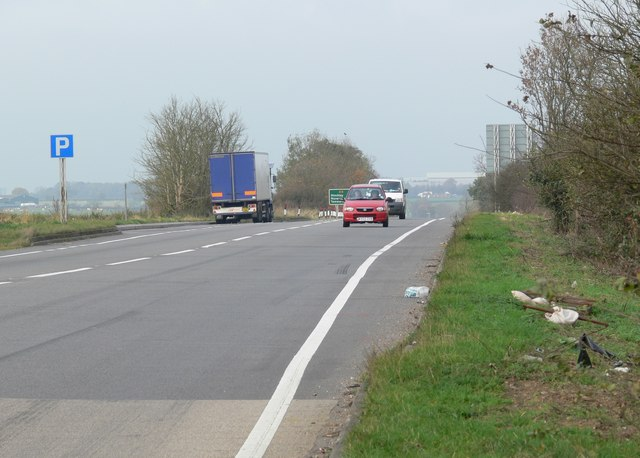 A5 Watling Street This Roman Road forms the border between Warwickshire and Leicestershire.